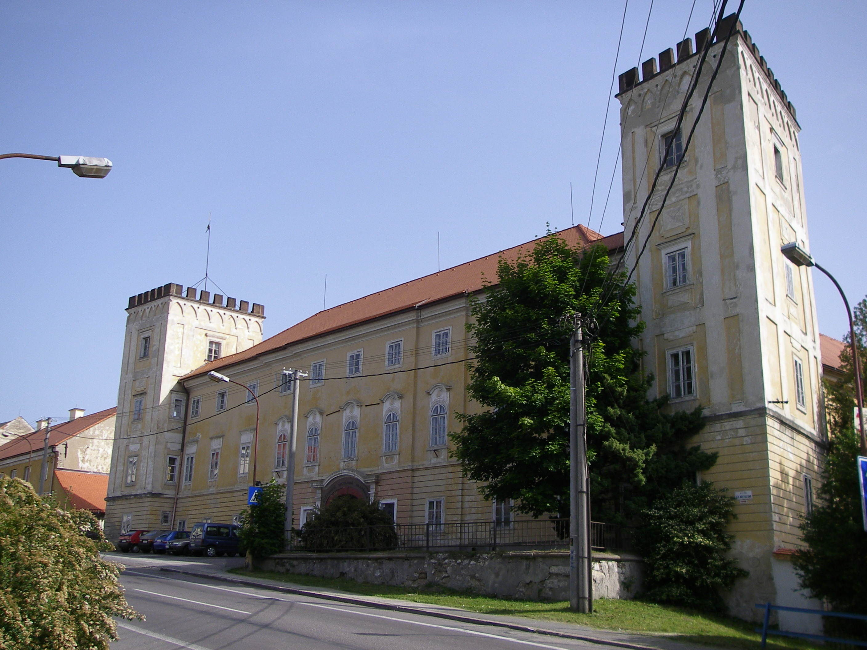 Manor house in Ziar nad Hronom (Slovakia)